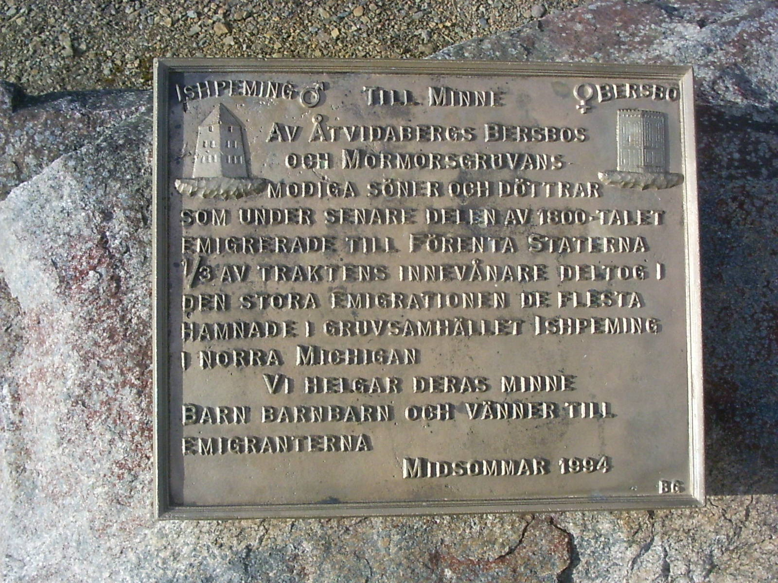 Mormorsgruvan (Åtvidaberg Municipality), emigration plaquette